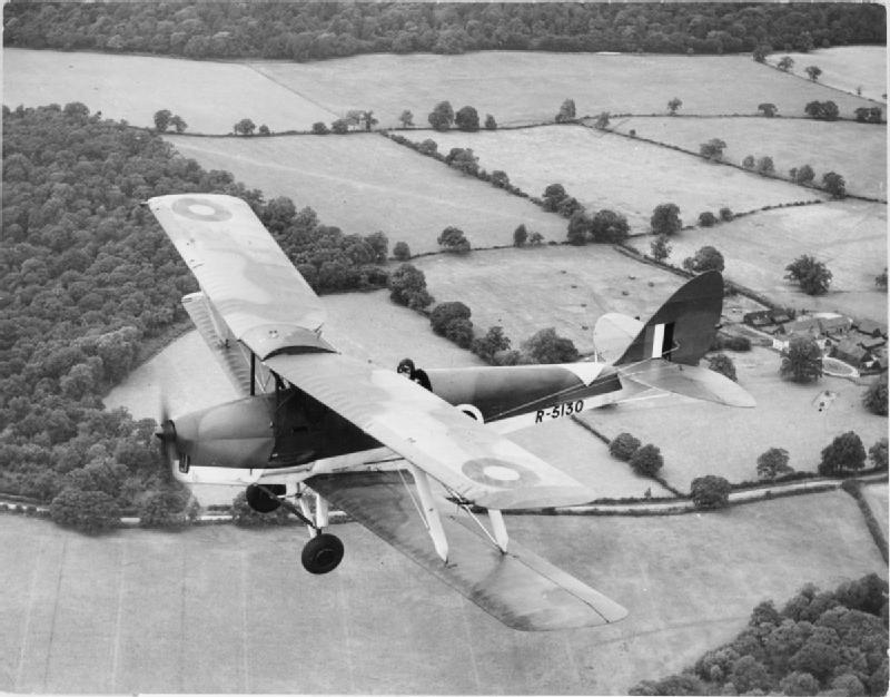 Aircraft of the Royal Air Force, 1939-1945- De Havilland Dh.82 Tiger Moth. DH.82A Tiger Moth Mark II, R5130, in flight. This aircraft served with No. 3 Ferry Pilots Pool, the Air Transport Auxiliary and No. 3 Flying Instructors School during the Second World War, before a further eight years service with the RAF in the post-war years. It was finally sold for civilian use as G-APOV in 1953.